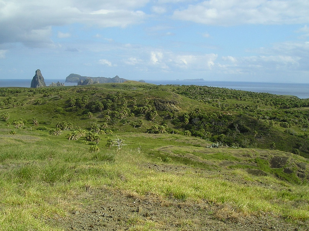 Mukojima Island, one of the Bonin Islands, Ogasawara Village, Tokyo.